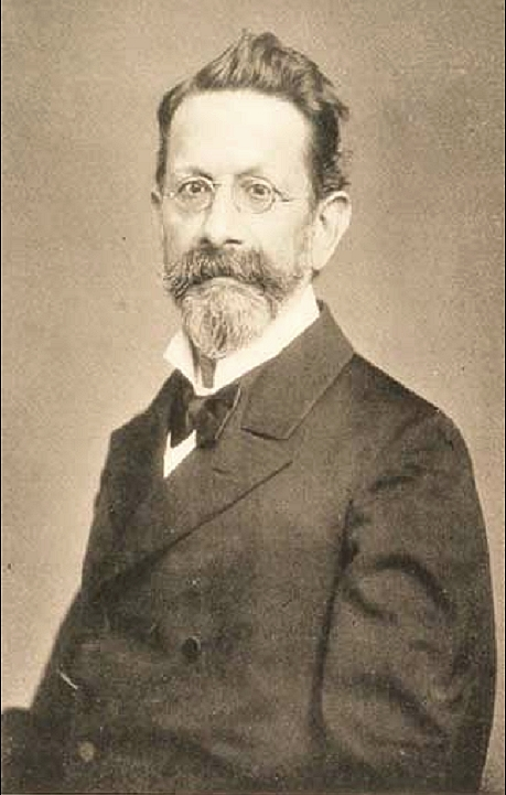 The photo shows Karl Alfred von Zittel (1839-1904), German palaeontologist and geologist.